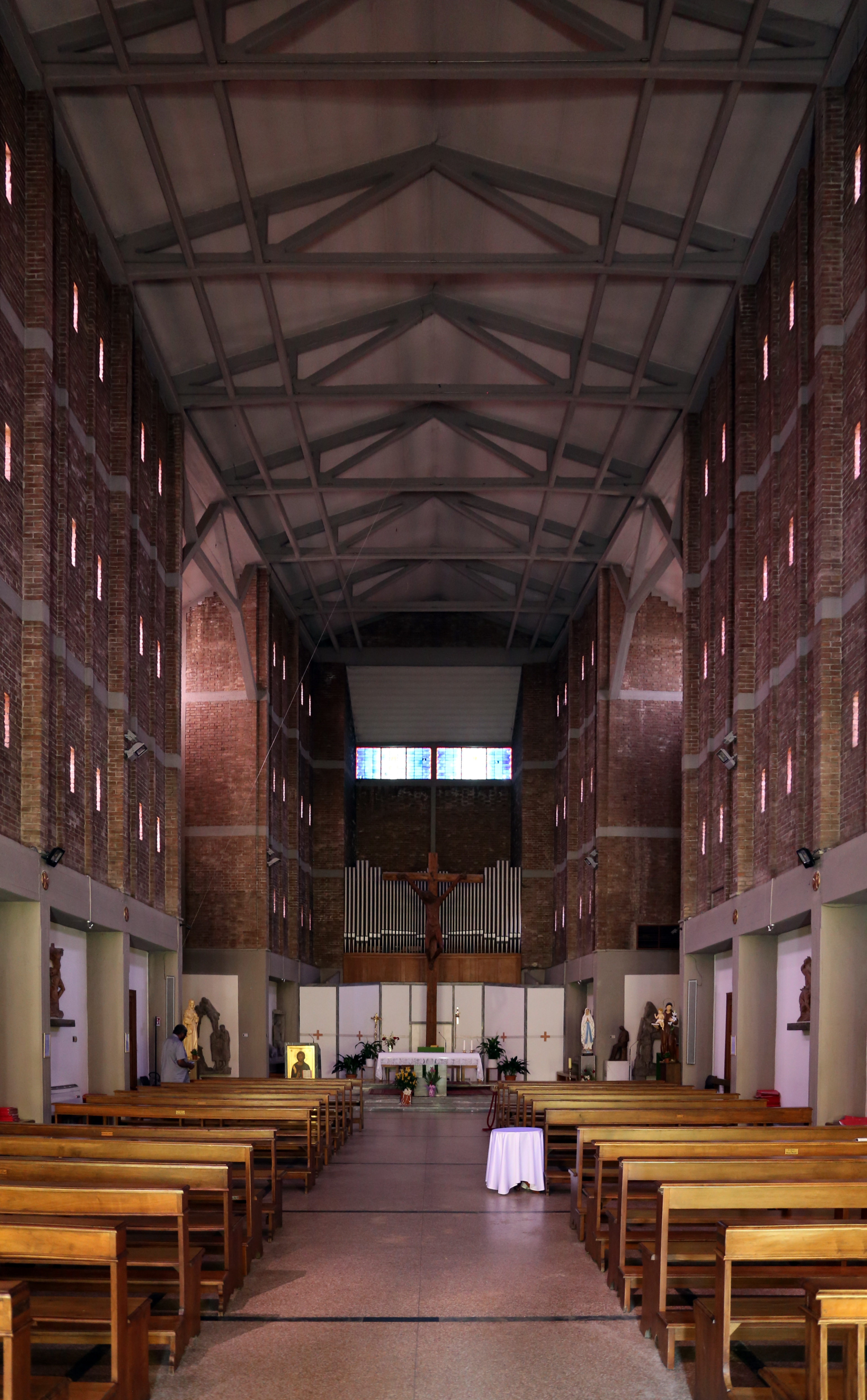 Sante Maria e Tecla (Pistoia)